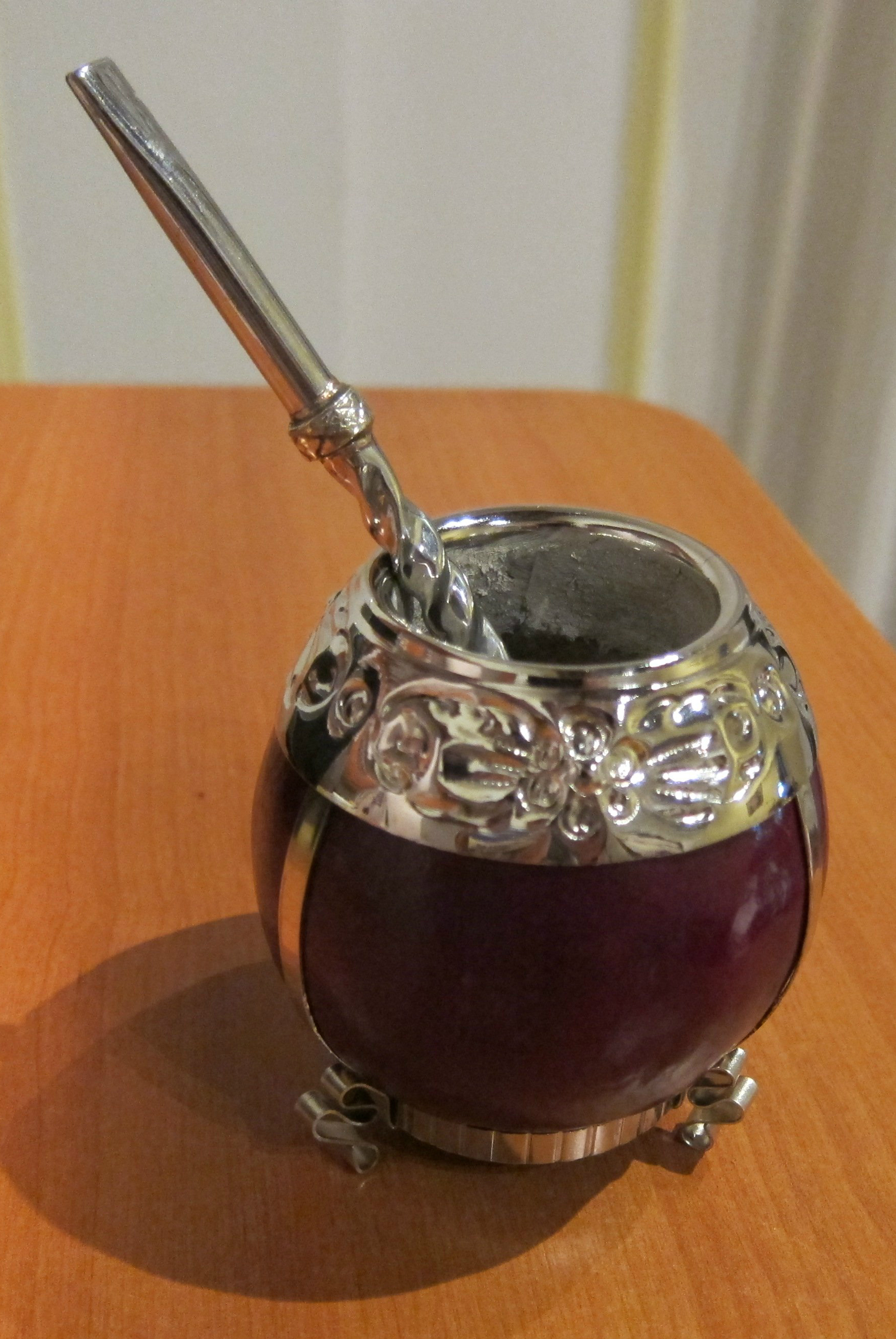 cropped This file has been extracted from another file: Lagenaria siceraria Mate Gourd (carved and decorated for drinking mate) with Bombilla.jpg